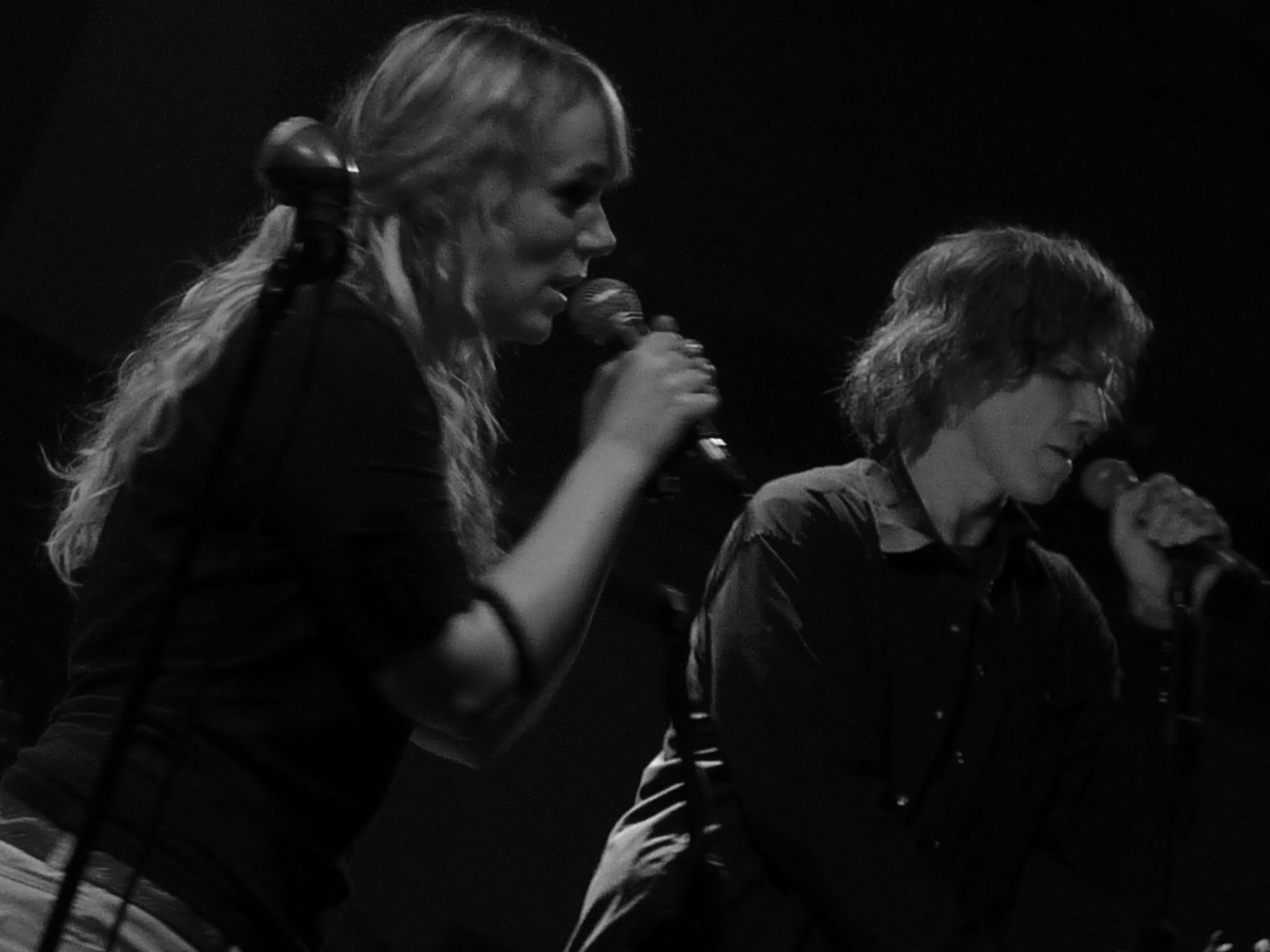 Isobel Campbell and Mark Lanegan